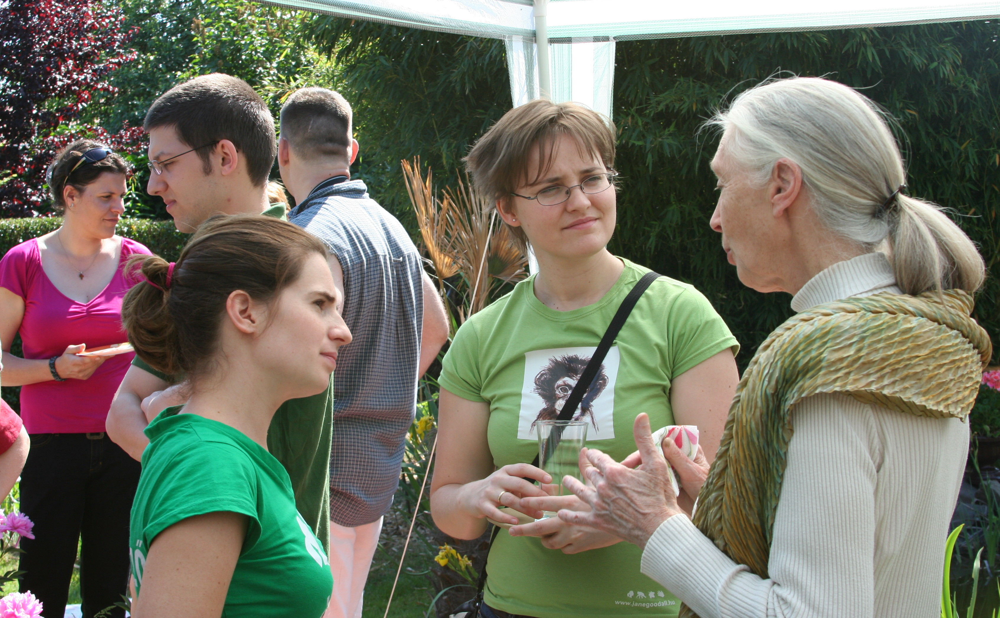 Jane Goodall with volunteers of Roots and Shoots, Hungary